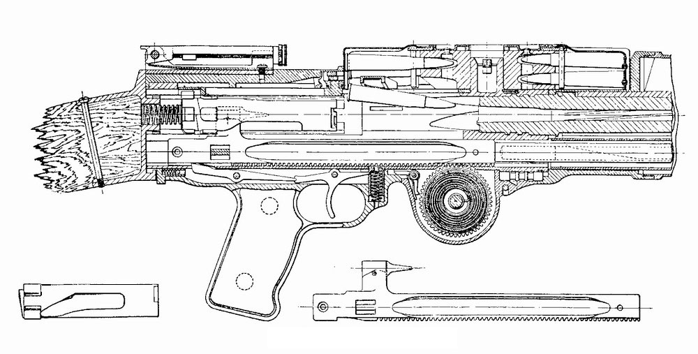 Lewis Machine Gun action,sectional drawing